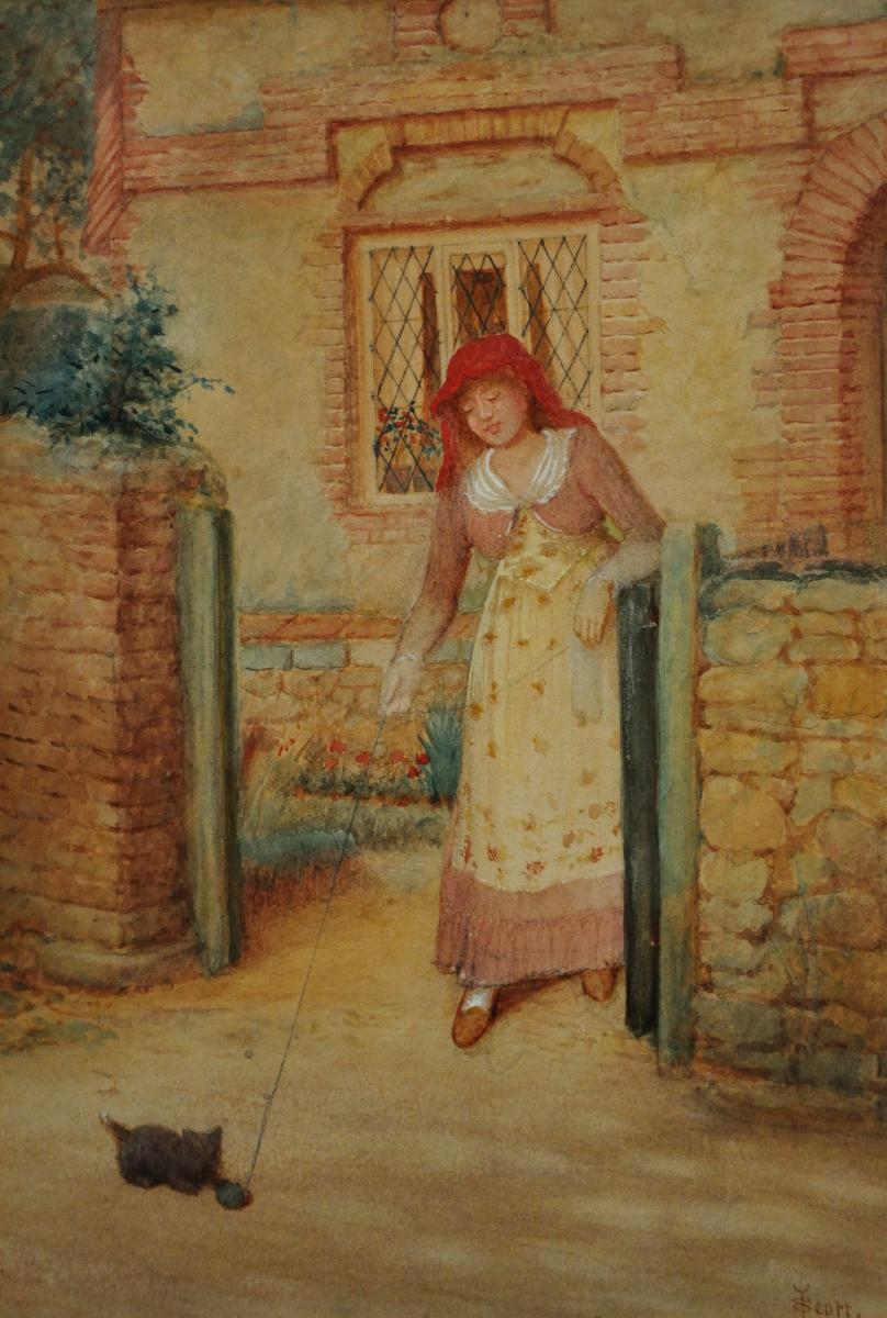 Playing with a kitten Signed bas droite Watercolour 21cm x 31cm